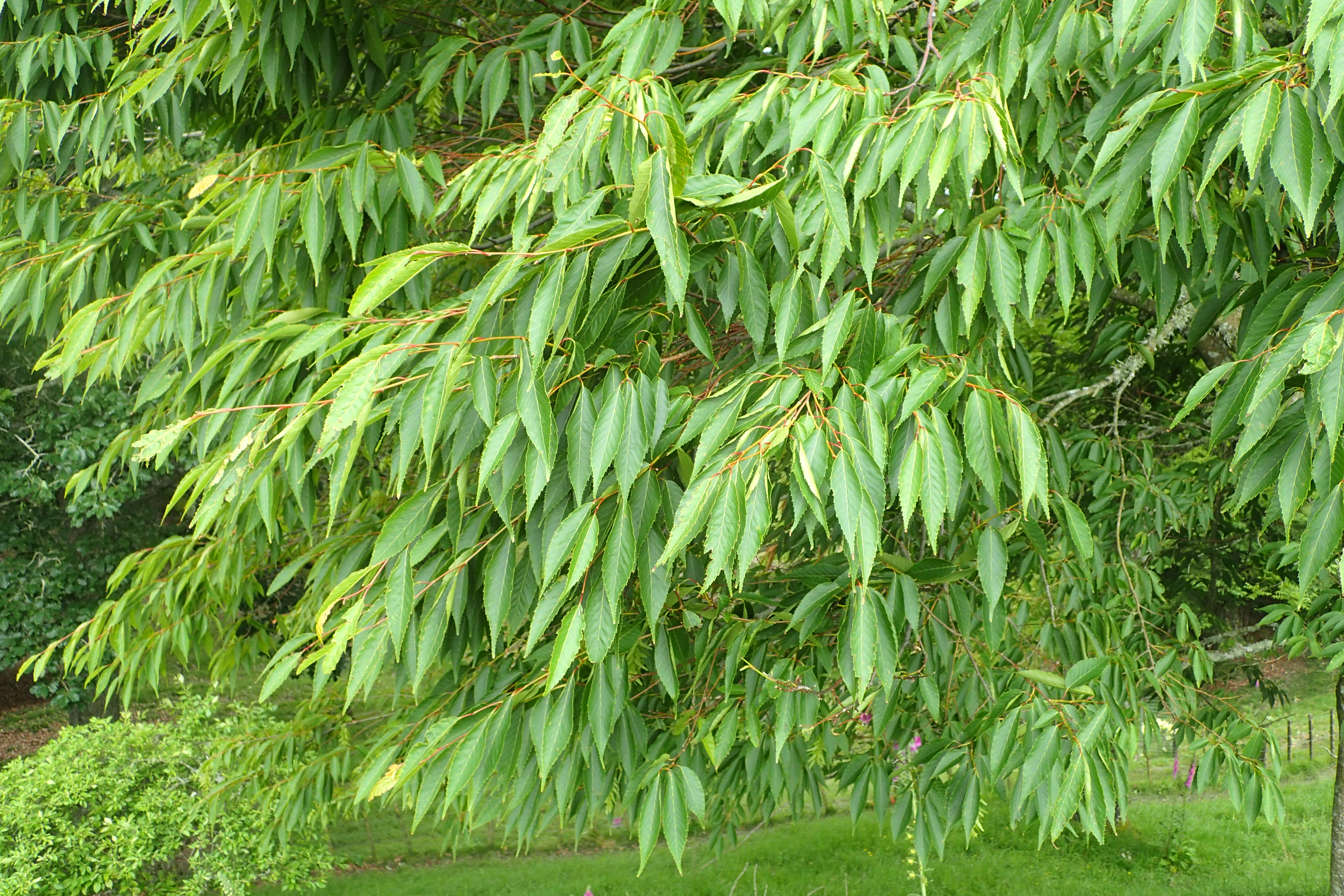 Carpinus viminea in Hackfalls Arboretum, Hawkes's Bay, NZ